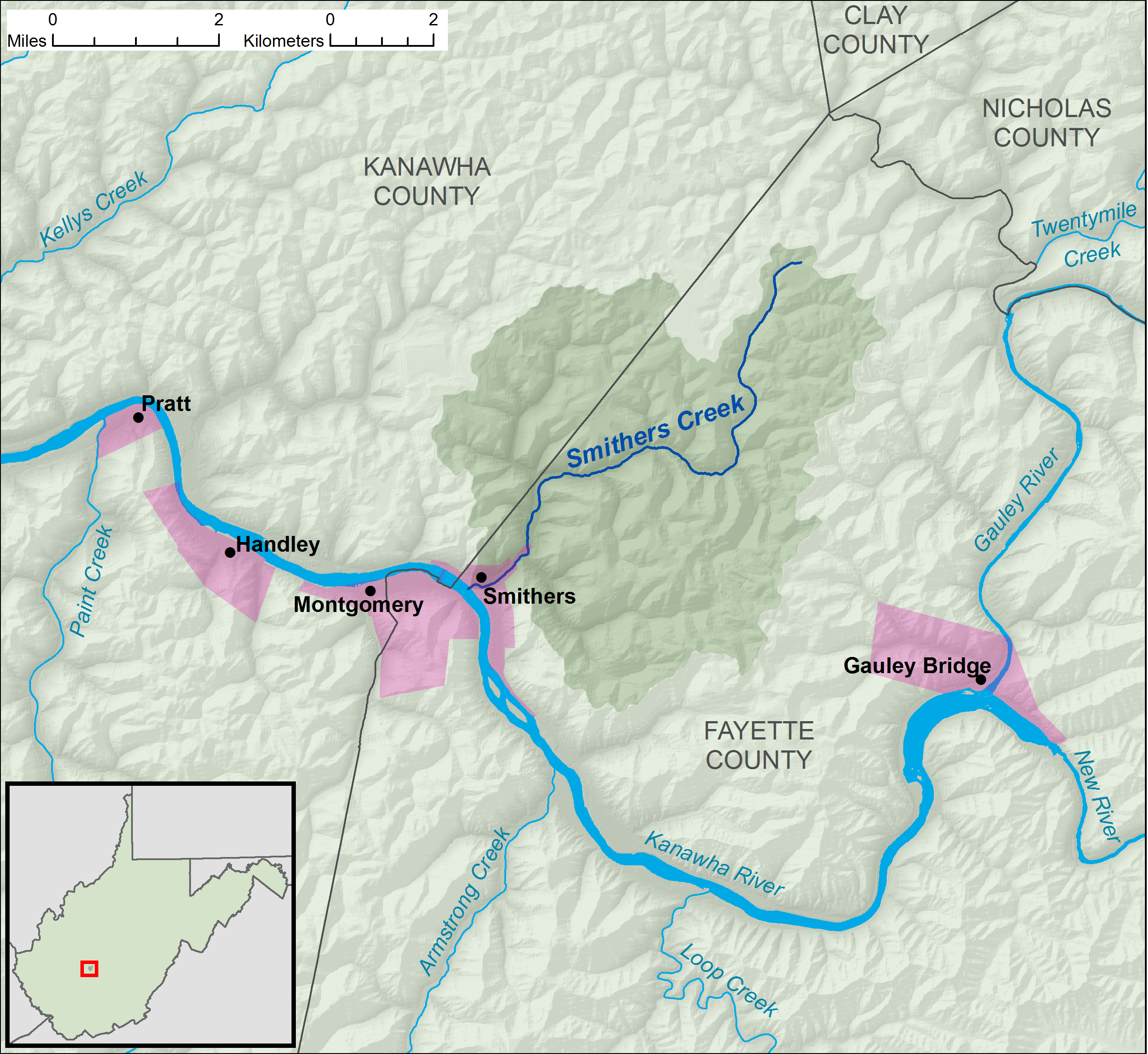 A map of Smithers Creek and its watershed (USGS HUC-12 code 050500060303), in Fayette and Kanawha counties in West Virginia.